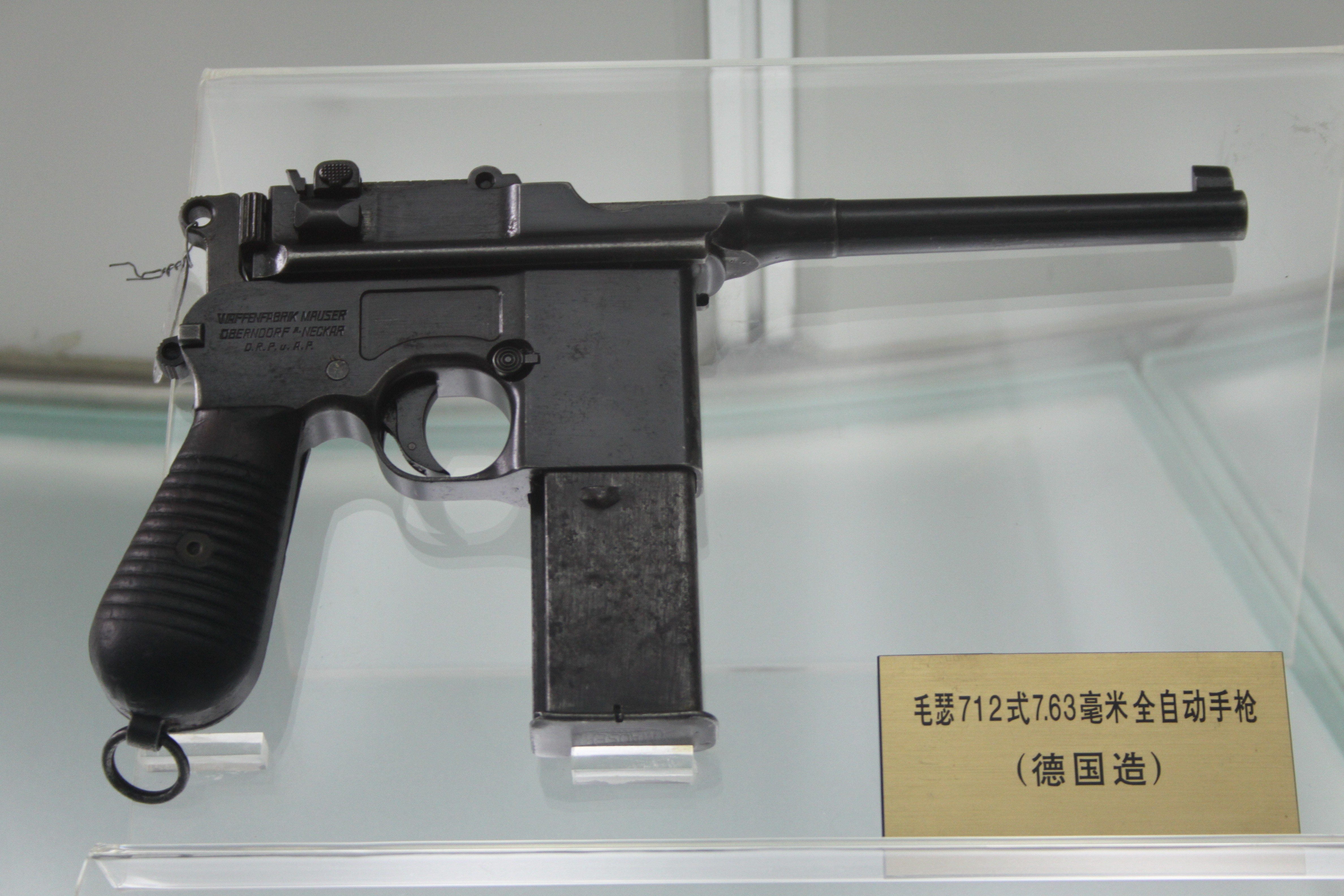 Military Museum: Modern Weapons, Small Arms Gallery. Complete indexed photo collection at .